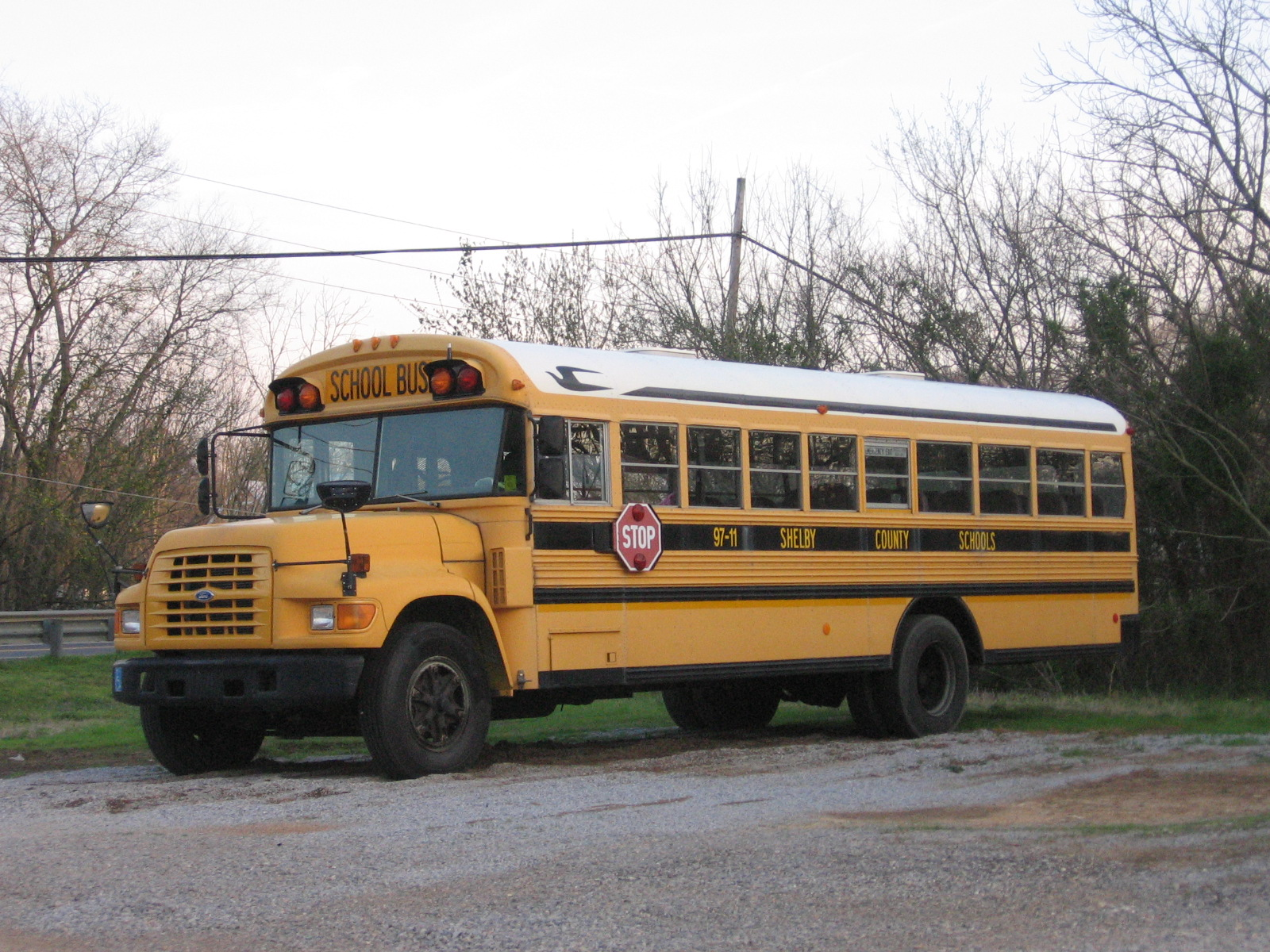 1997 Blue Bird Conventional school bus (on Ford B700 chassis) operated in handicapped service by the Shelby County, Alabama Board of Education in Helena, Alabama.